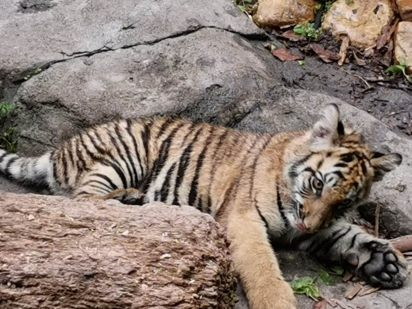 Chimelong Safari Park is home to a wide range of wildlife animals. This picture of a little tiger playing was taken from the safari.